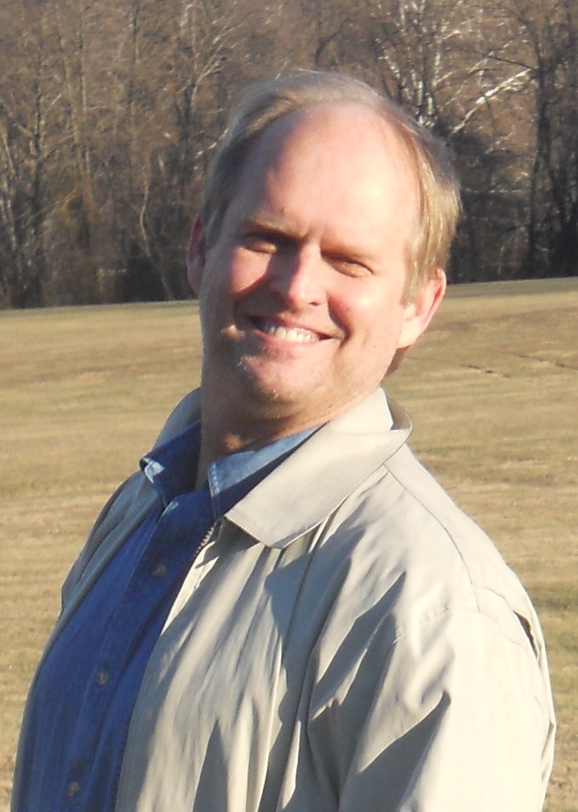 Robin Hanson in Fairfax